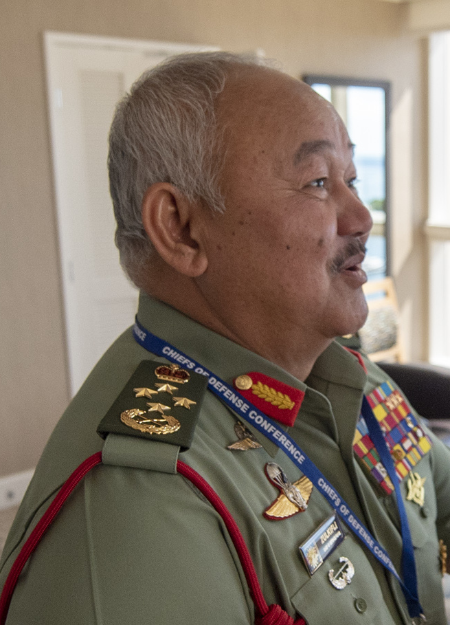 Marine Corps Gen. Joe Dunford, chairman of the Joint Chiefs of Staff, meets with Malaysian Army Gen. Tan Sri Dato’ Seri Panglima Hj Zulkifli bin Hj Zainal Abidin, Chief of Defence Forces Malaysian Armed Forces, during the Indo-Pacific Chief of Defense conference in Waikiki, Hawaii, Sept. 10, 2018.